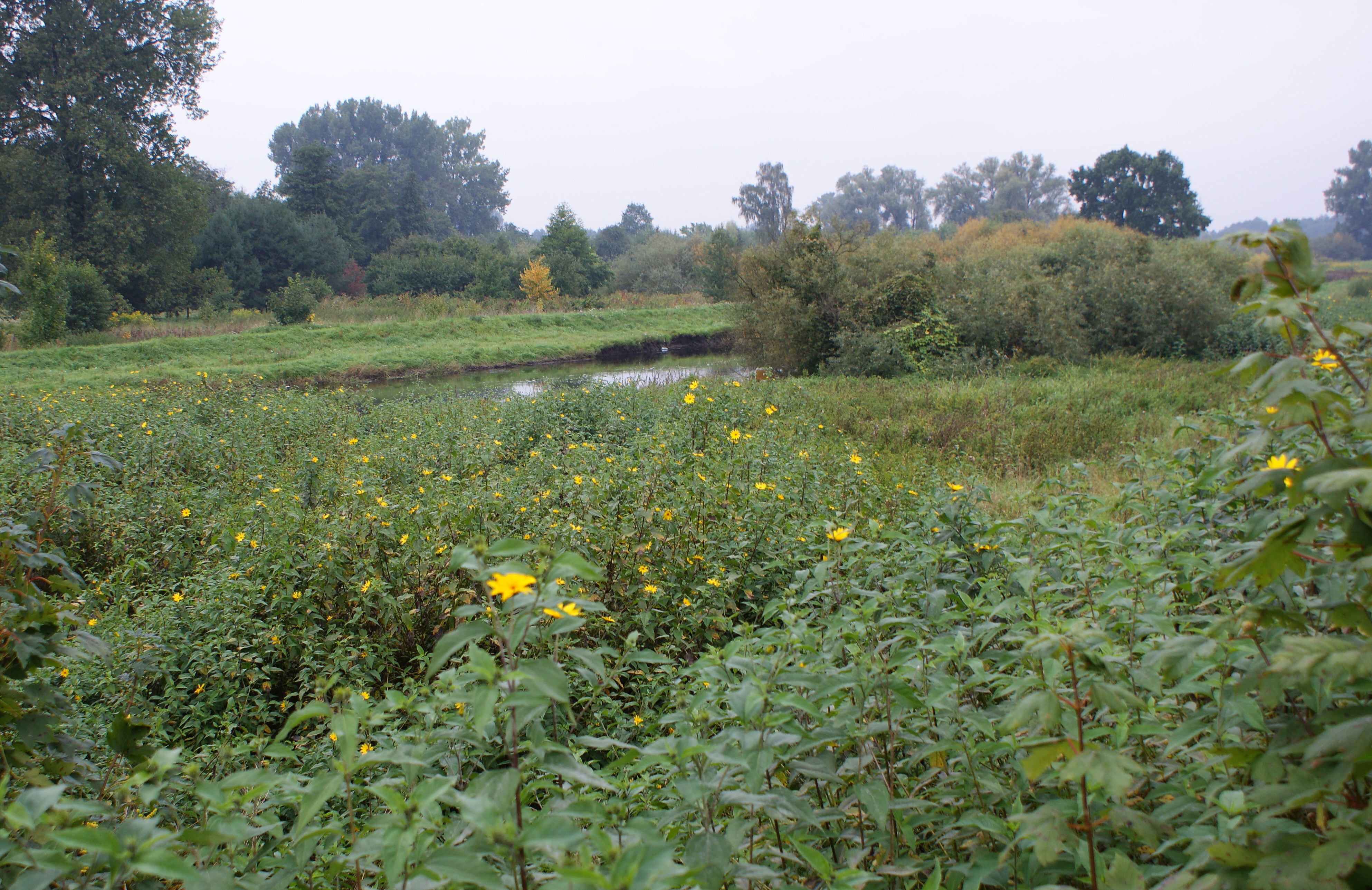 Helianthus tuberosus in the Ina river valley near Stargard Szczecinski (NW Poland)